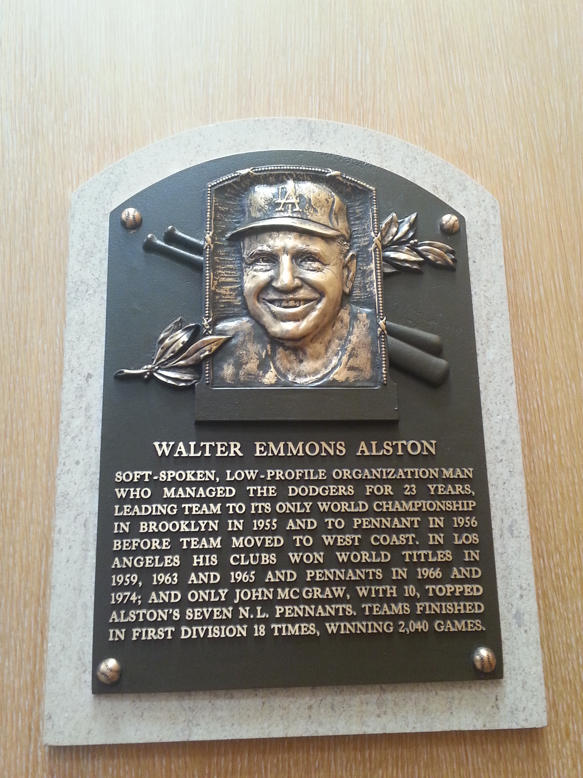 Walter Alston plaque in the National Baseball Hall of Fame